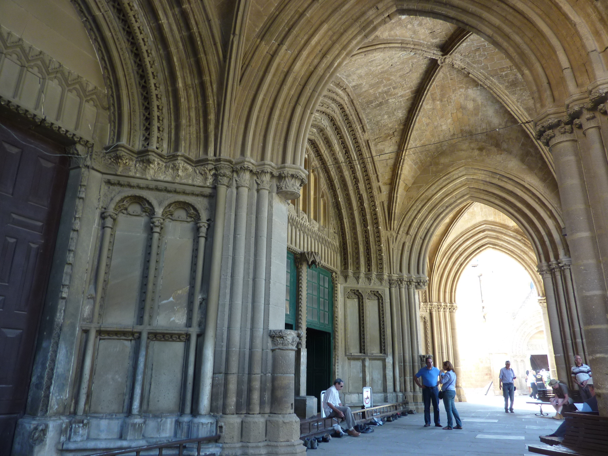 Selimiye Mosque (St. Sophie Cathedral)